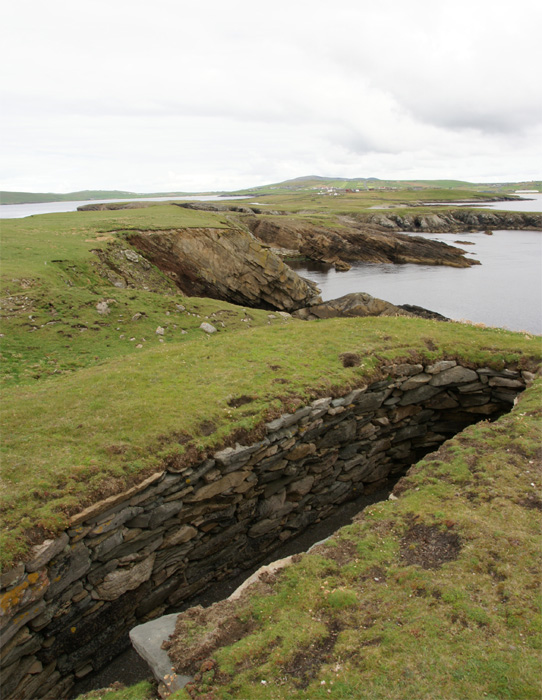 Ness of Burgi, Mainland (Shetland), Scotland - north chamber from the south and above